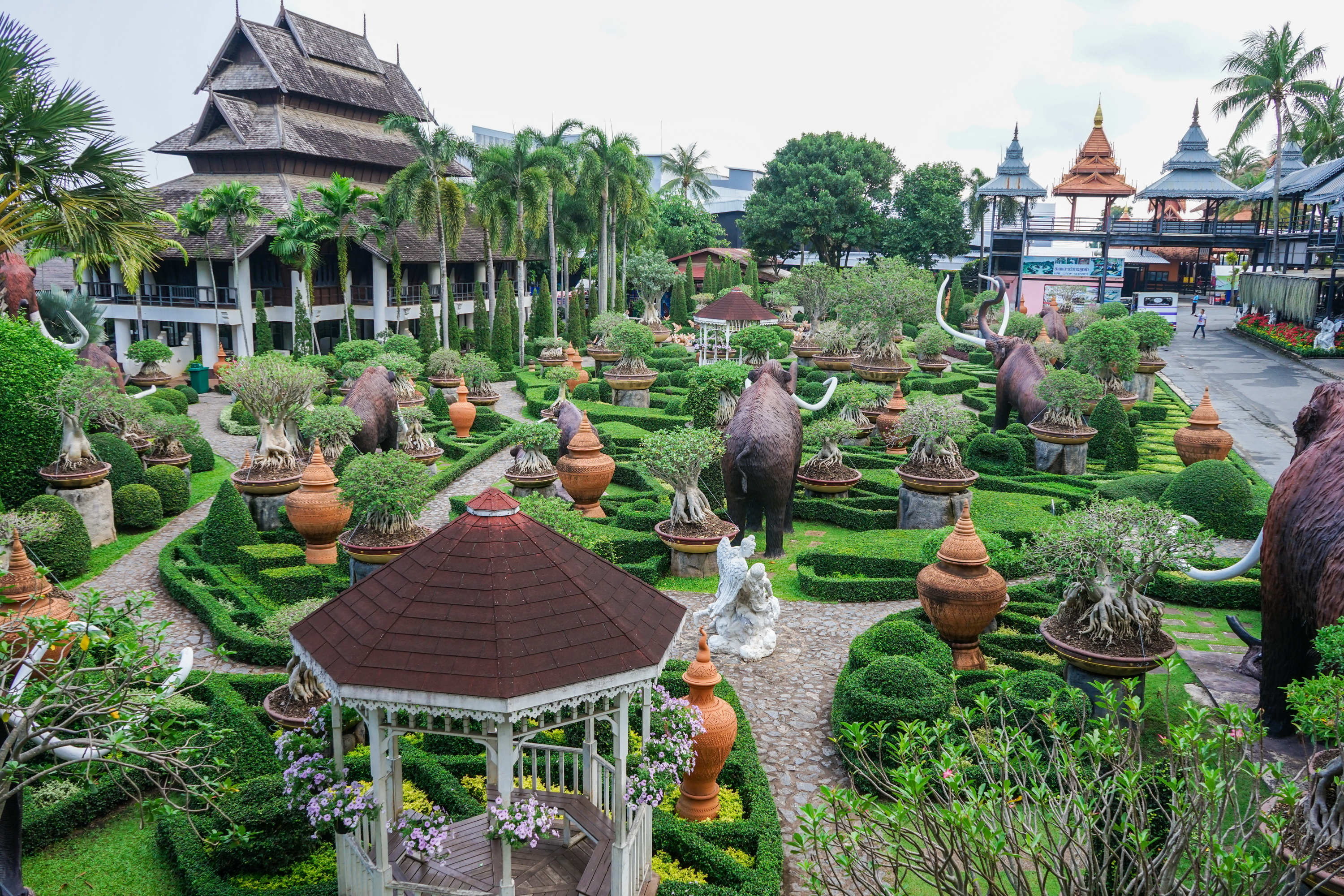 Nong Nooch Garden, Pattaya